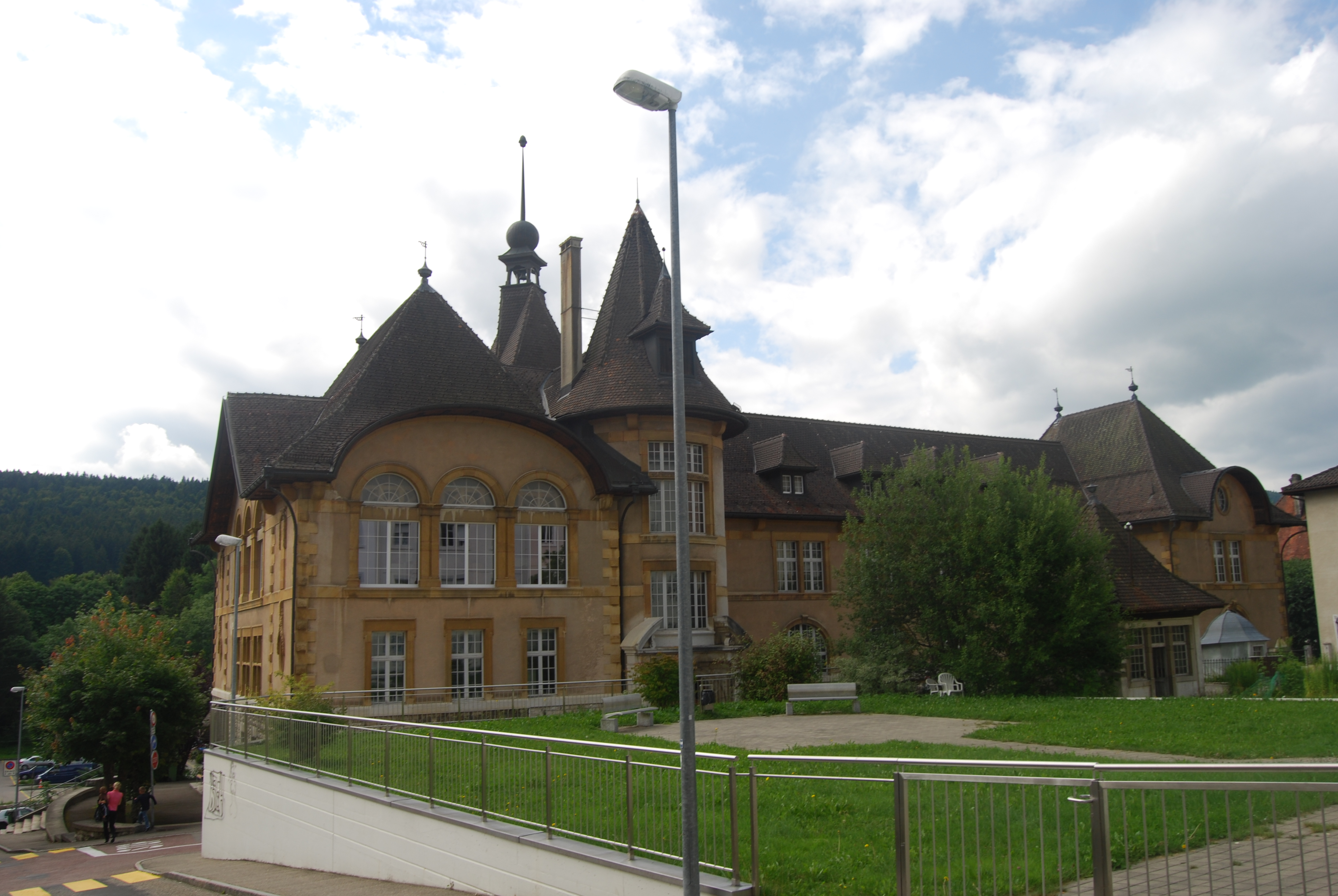 Secondary school of Tramelan, canton of Bern, SwitzerlandEsperanto: Sekundara lernejo de Tramelan, Kantono Berno, Svislando